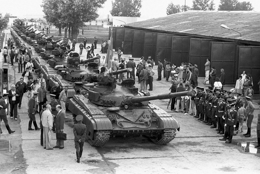 “Military equipment leaving the country. Withdrawal of Soviet troops from Hungary”. Military equipment leaving the country. Withdrawal of Soviet troops from Hungary.